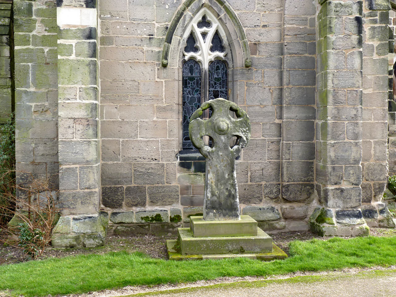 Medieval cross, Rolleston